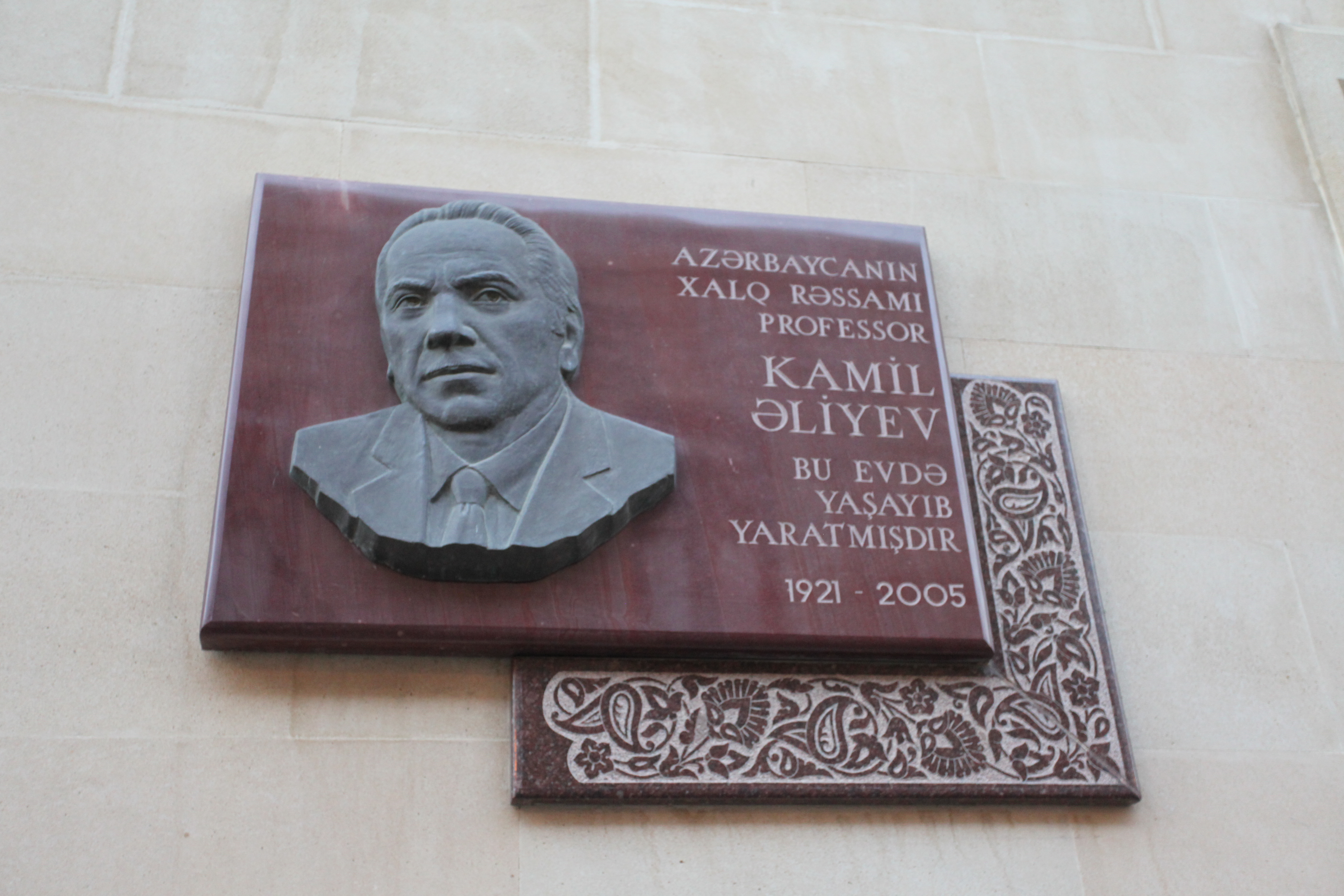 Plaque on building where Azerbaijani carpet designer Kamil Aliyev lived in Baku